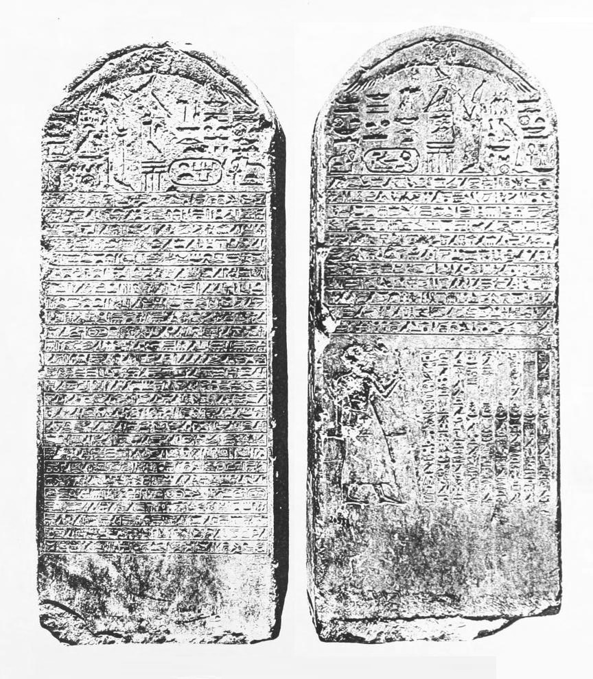 Recto and verso of the stele of Sehetepibra, which contains a portion of the so-called Loyalist teaching. Sehetepibra was an official lived under Senusret III and the stela is datable around 1860-1840 BCE, during the coregency between Senusret III and Amenemhat III (12th dynasty, Middle Kingdom). Limestone from Kom el-Sultan, near Abydos. Cairo Museum, CG 20538.